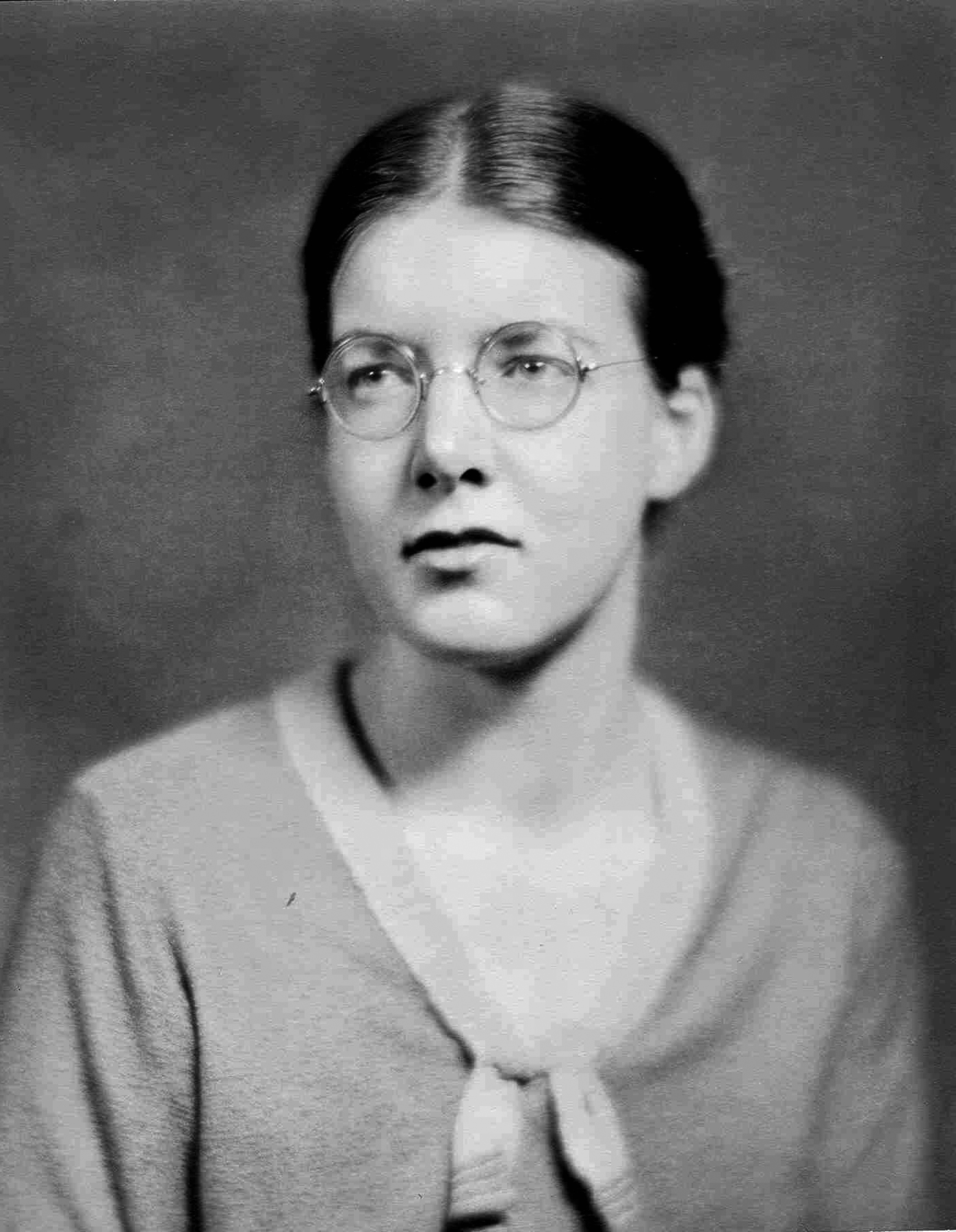 Mabel Harlakenden Grosvenor graduated from Johns Hopkins University in Baltimore, Maryland in 1931, one of the first female graduates of the program. Photograph owned by the Grosvenor Family.